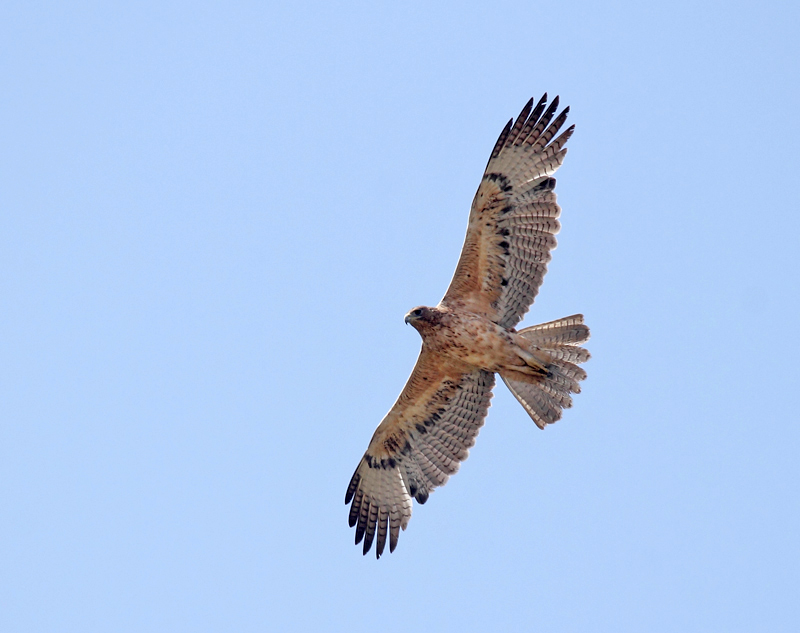 Picture of a Juvenile Bonelli's Eagle in-flight.